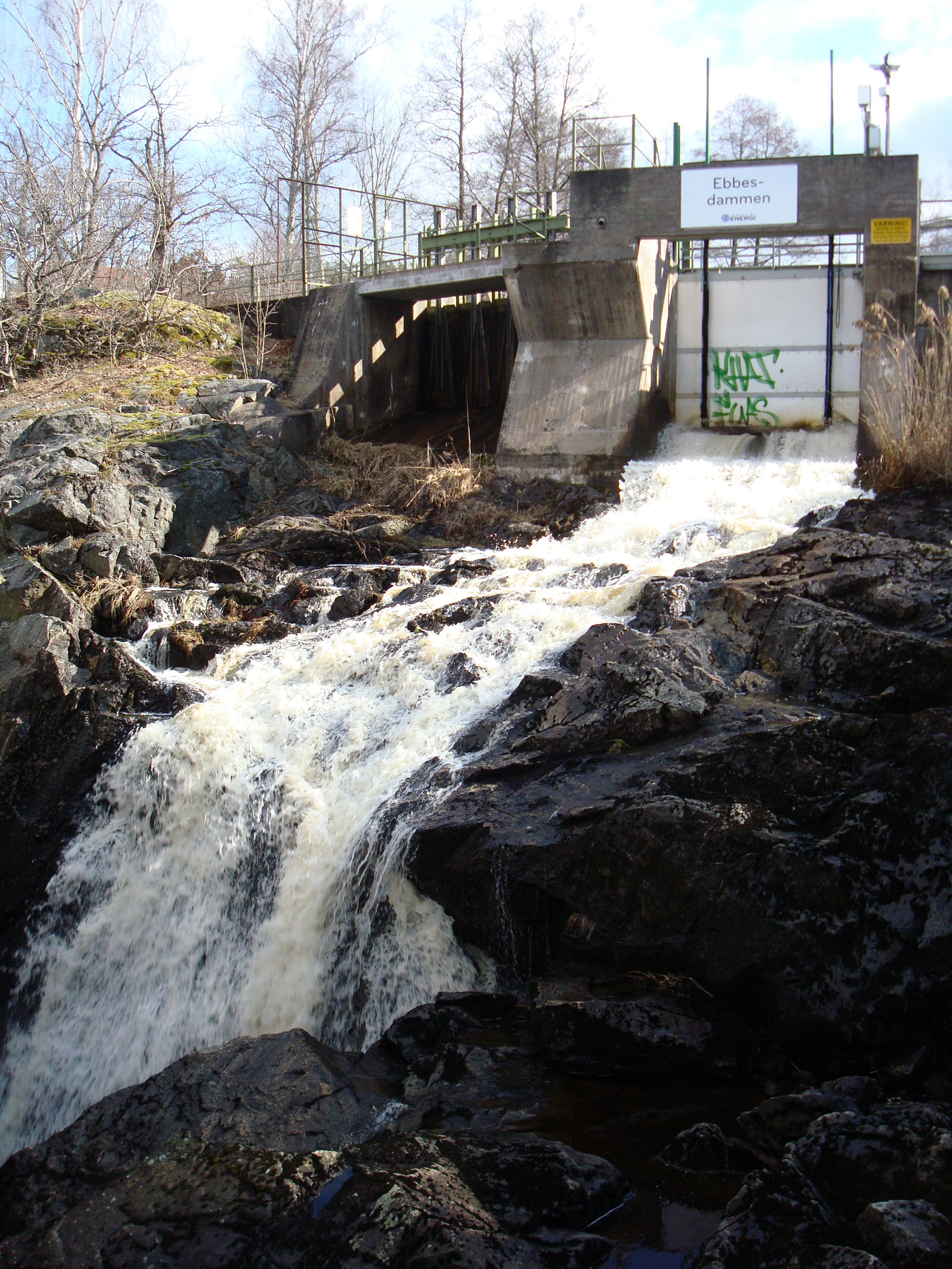 The waterfall of Huskvarnaån, Huskvarna, Sweden